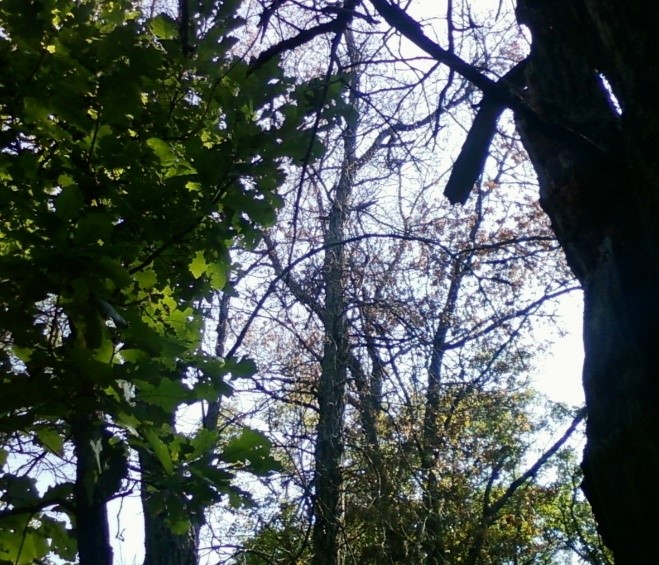 Northern Chisago County, Minnesota and St. Croix State Park in Pine County, Minnesota were in middle of 7-1-2011 storm path where extreme tree damage and heavy NEW oak wilt infections occurred.